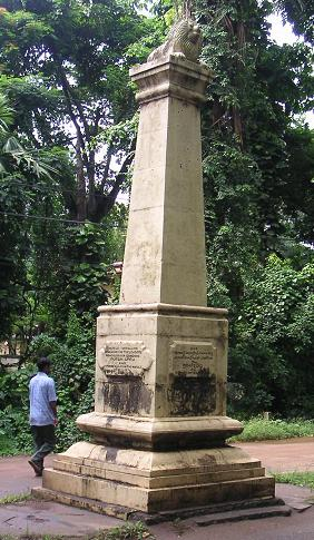 Memorial over the leaders of the 1848 Matale rebellion, in Matale, central Sri Lanka.